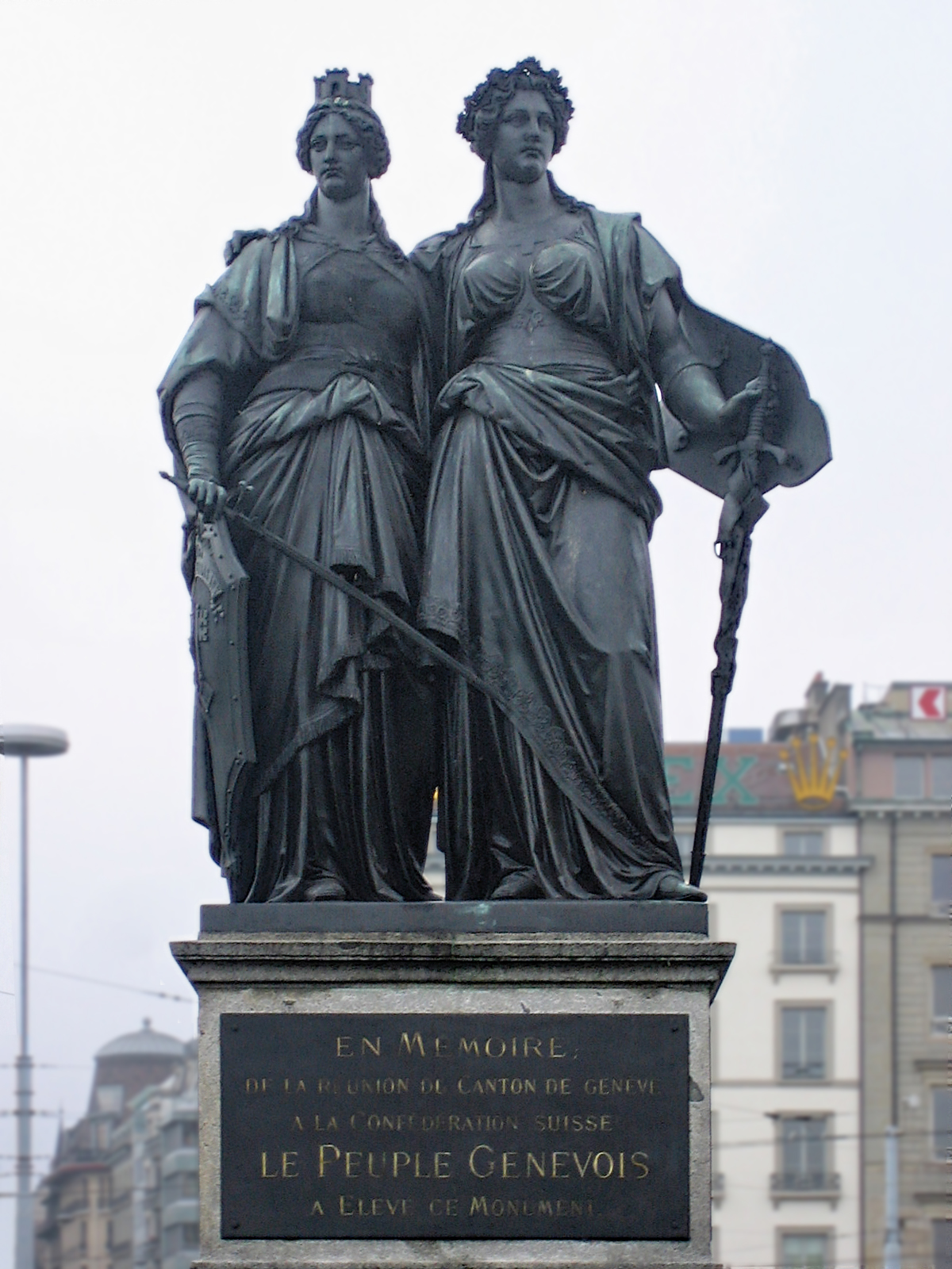 Statue of the Geneva and Swiss allegories in the English Garden to commemorate Geneva's entry into the Swiss Confederation